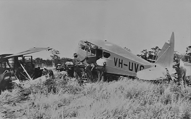 Northern Territory. RAAF salvage crew loading the fuselage of the Dragon Rapide aircraft A3-2 onto a truck. The wings and engines have been removed to facilitate the salvage operation. The detached wings are seen at left and at right, behind the fuselage. The A3-2 is still carrying its call sign VH-UVG, as it was pressed into RAAF service to begin work based at Port Hedland as part of the North Australian Survey Flight (NASF). The A3-2 was forced to land ninety miles north of Newcastle Waters on 13 April 1936 when it exhausted its fuel. The crew, Flight Lieutenant W. L. Hely, Aircraftmen R. B. Sherwood and H. Walkington, were uninjured although A3-2 sustained severe damage to the undercarriage in the landing.